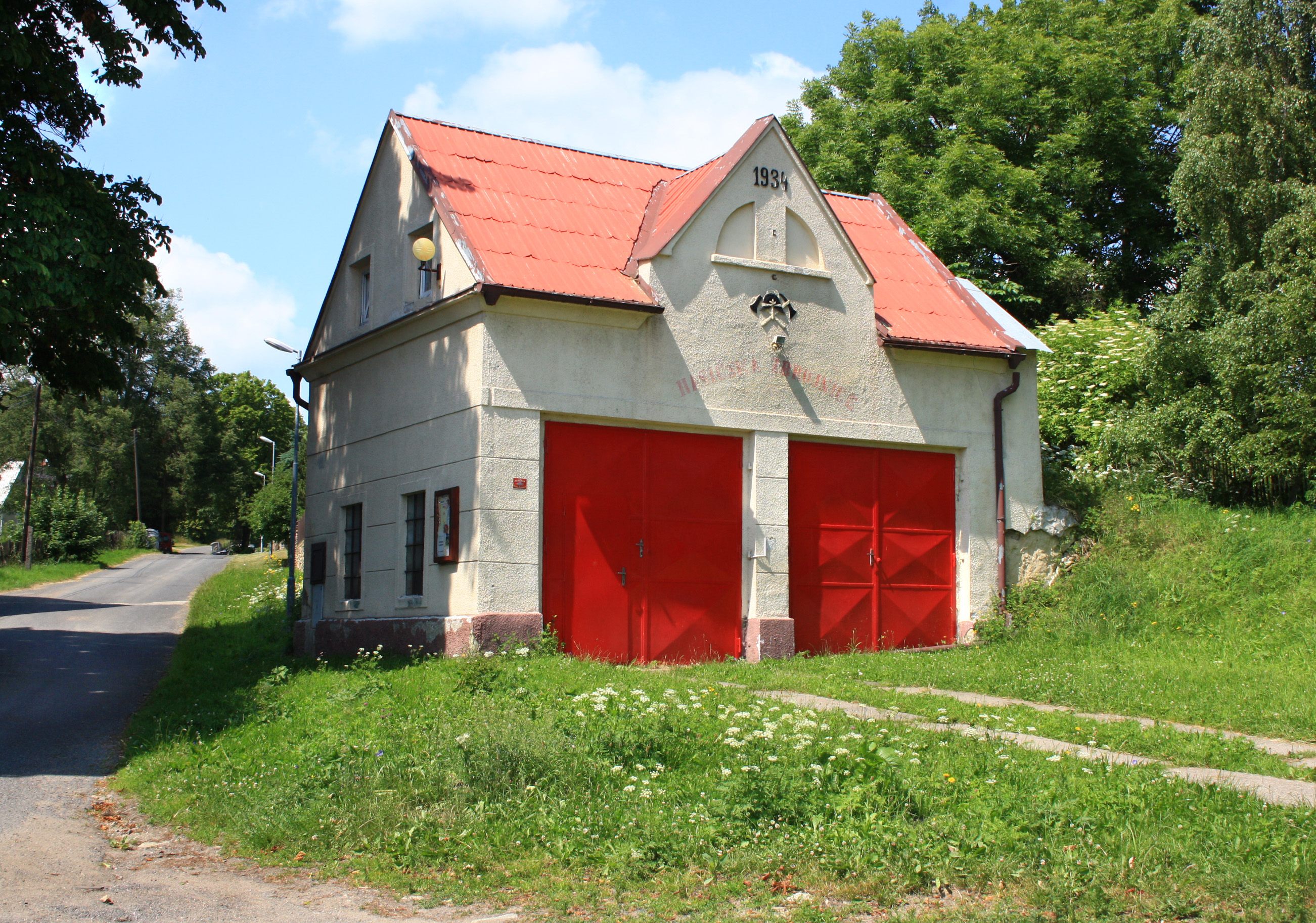 Fire house in Blatno, Czech Republic